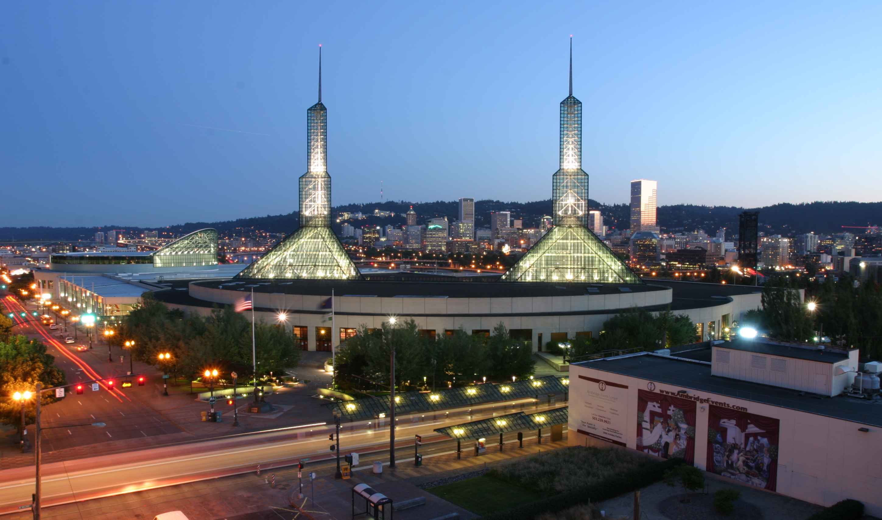 The Oregon Convention Center in Portland, Oregon. Seen from the Northeast.